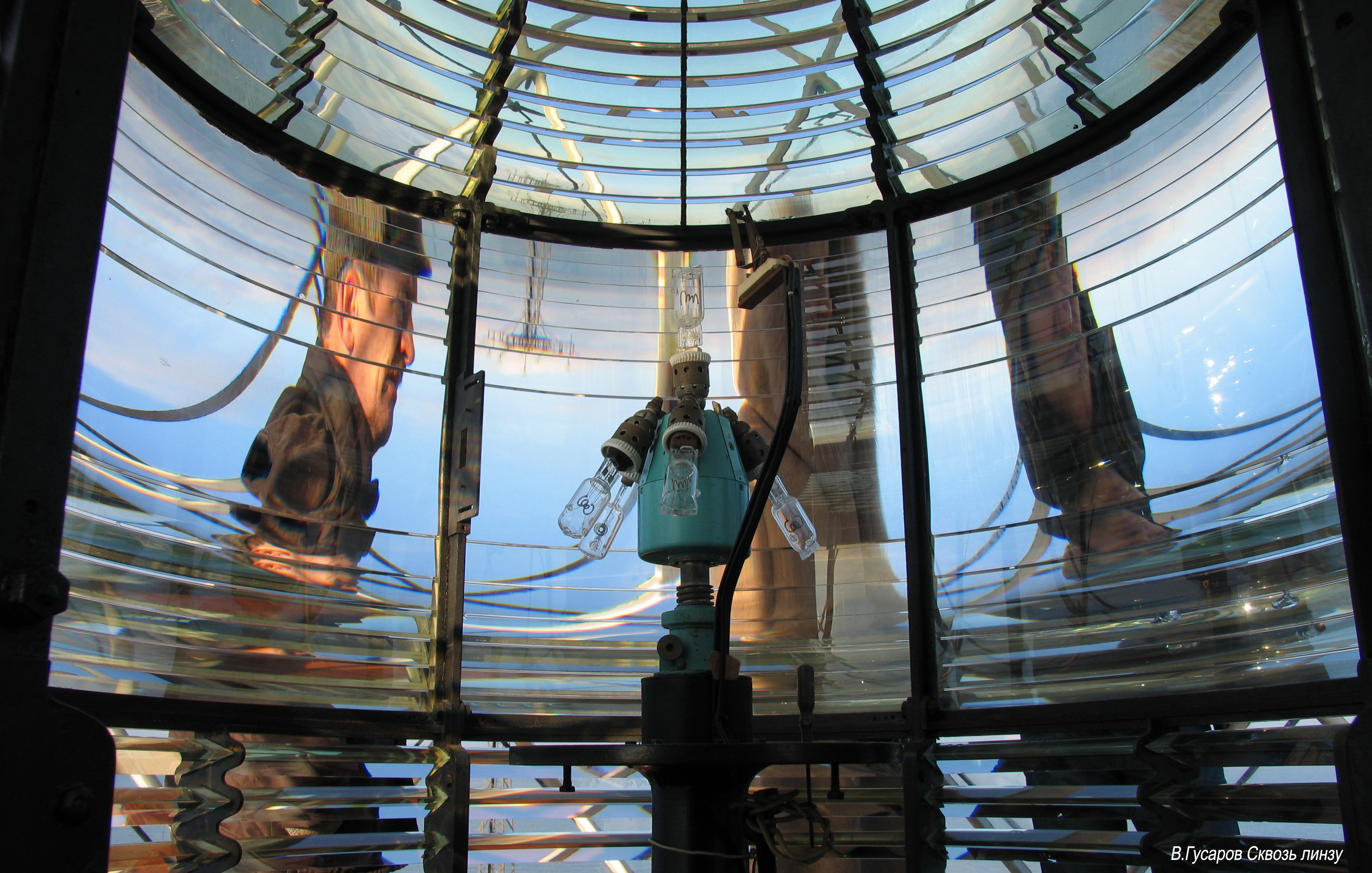 Light bulbs. Inside the Fresnel lens system of the Taran lighthouse. Best photos of Russian lighthouses photo-competition